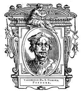 Illustratio from "Le Vite" by Giorgio Vasari, edition of 1568. For the artist portrayed see filename